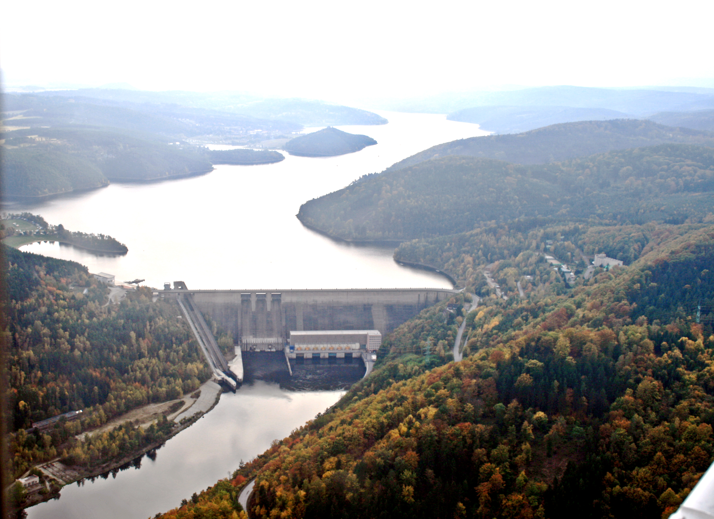 Air photo of Orlík dam on Vltava river, the Czech Republic